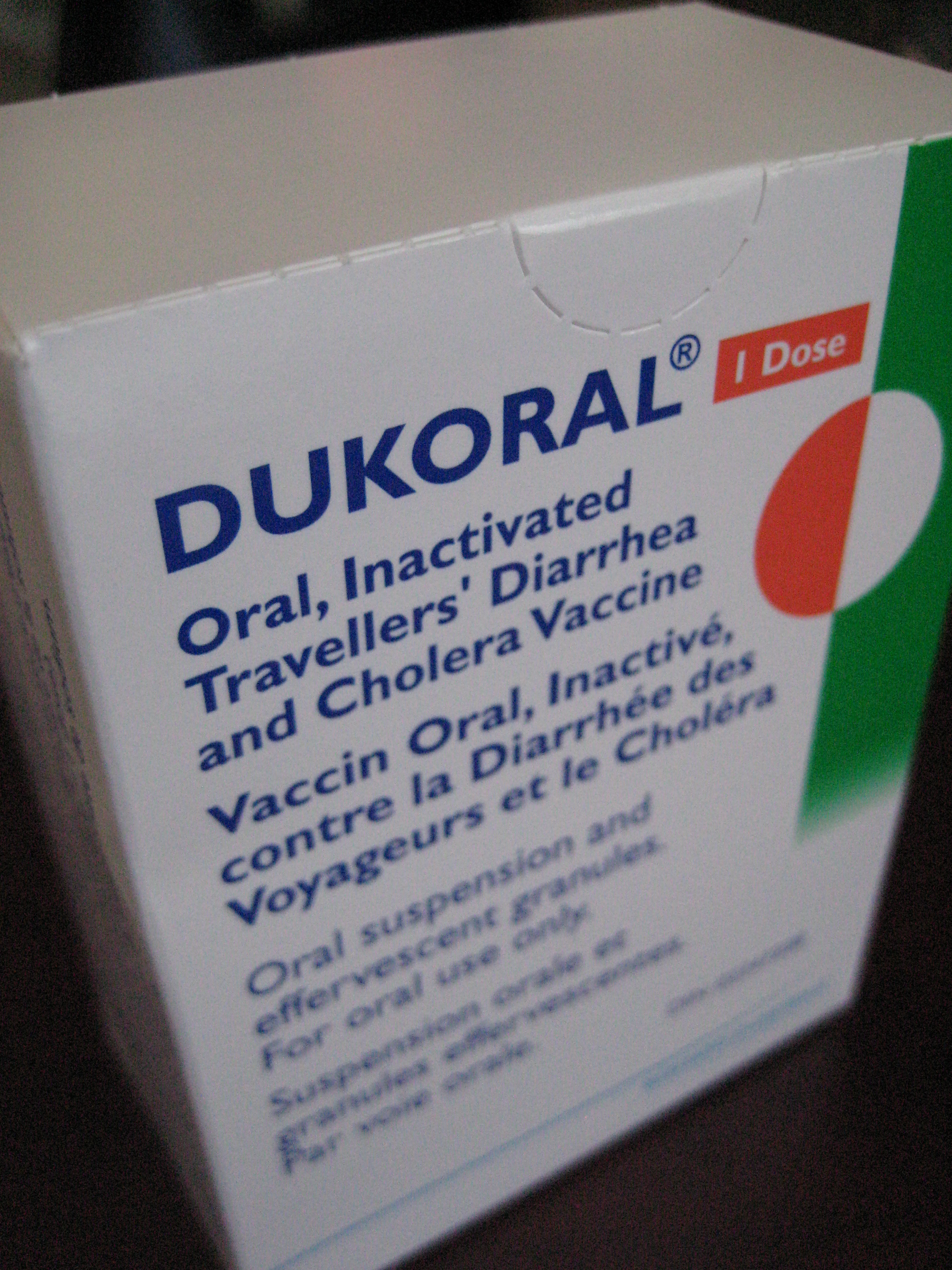 Box of a single dose of Dukoral, oral Cholera vaccine. Inside are a glass vial containing the vaccine, a package of bicarbonate buffer and an information leaflet. This package was sold in Canada, as evidenced by the bilingual French and English labelling. Contents are heat-sensitive and must be refrigerated. Packages bear identifying lot numbers and an expiration date.